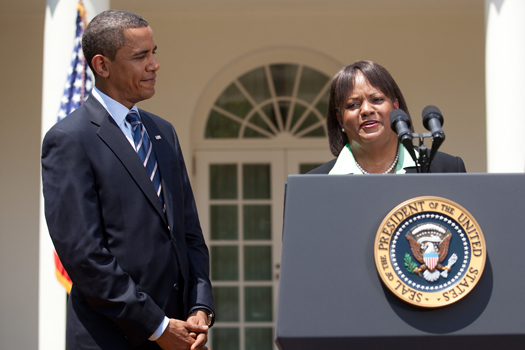 President Barack Obama with Regina Benjamin, Alabama physician nominated for the position of Surgeon General of the United States.